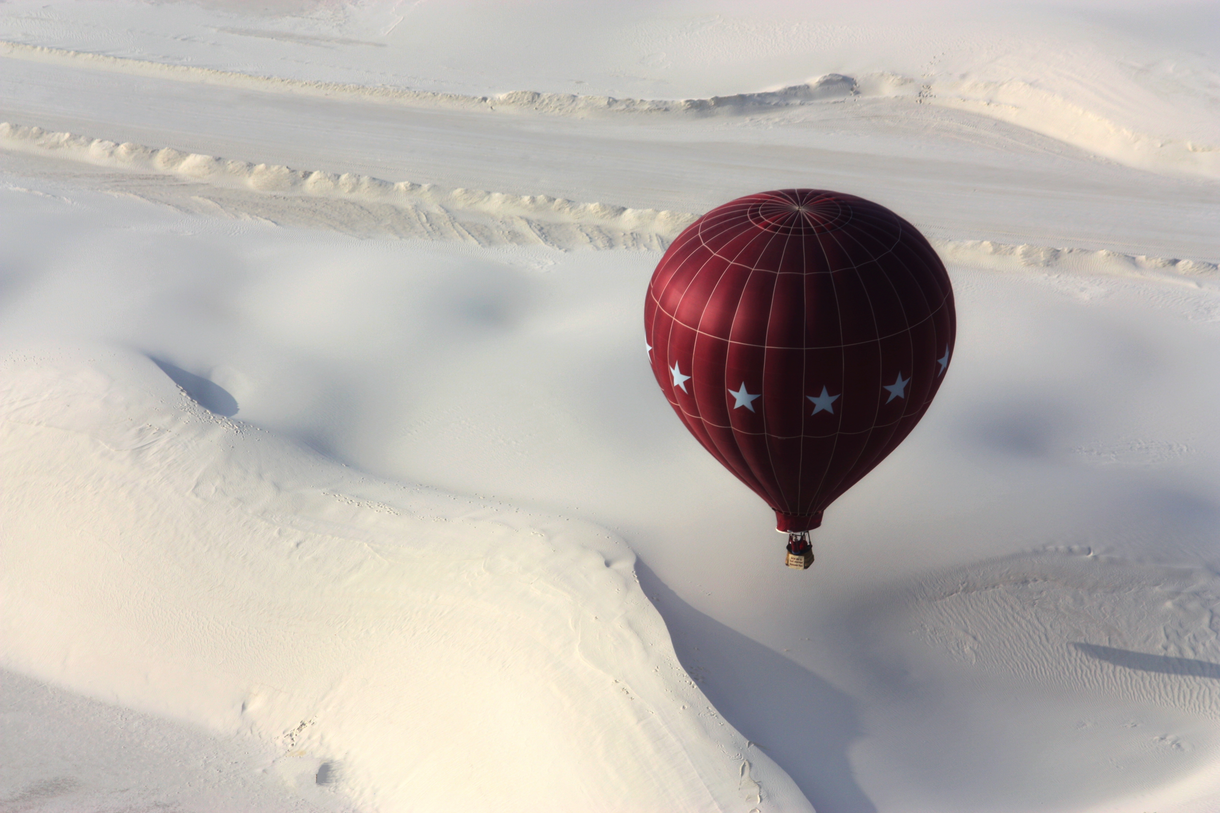 A deep red balloon with white stars participates at a balloon rally over White Sands National Park, New Mexico, United States. White gypsum sand forms a dune across the bottom of the image. The plowed park road crosses the top of the image.